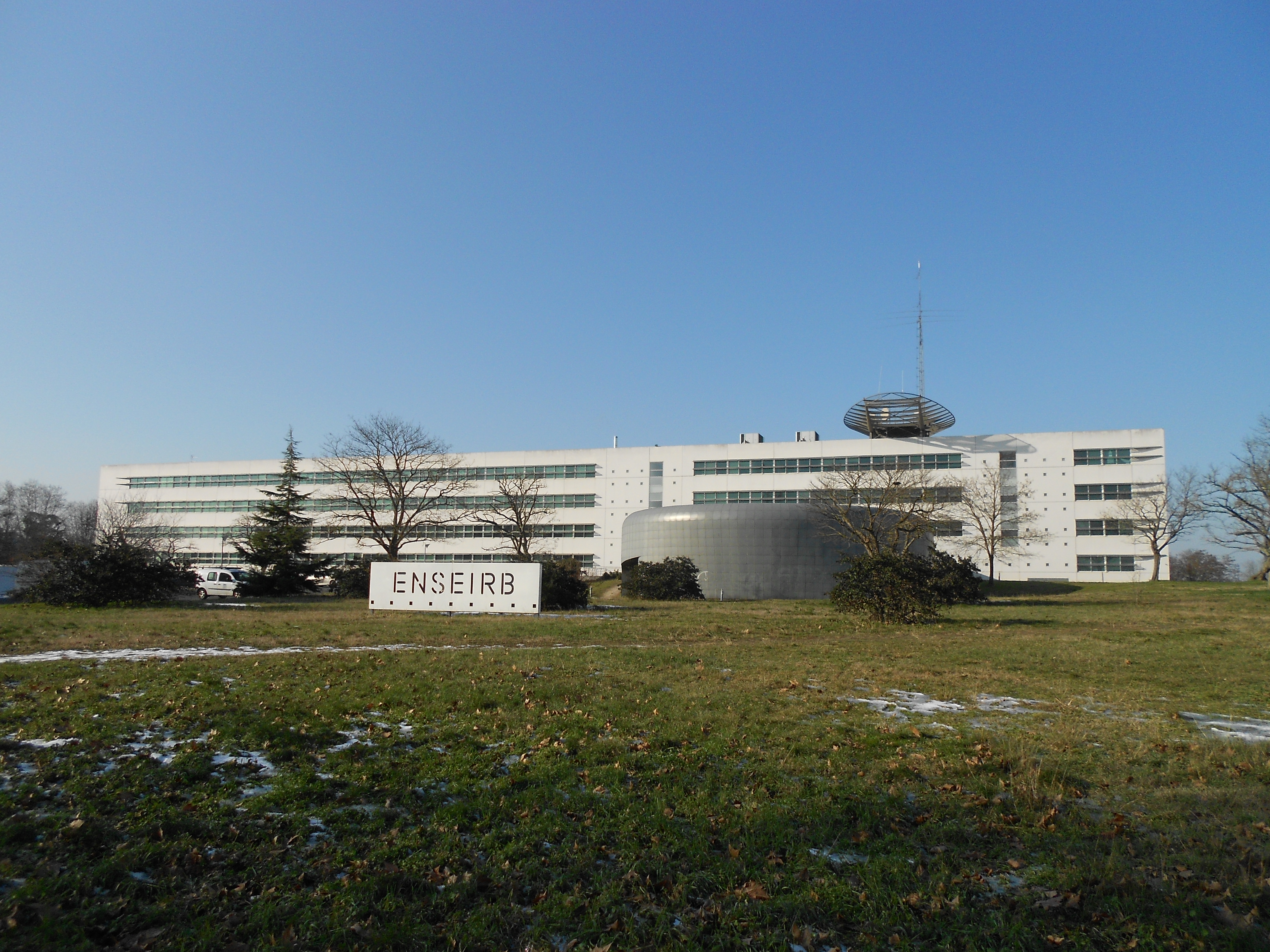 Front view of the ENSEIRB on the Talence/Pessac campus; February 2012